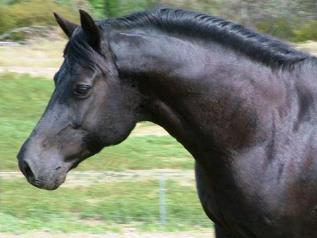 Chapel House Black Magic. Section D Welsh Cobs Stallion. Black. 14.2hh. By Burrowa Black Gwylim out of Chapel House Gwenhwyfar. Standing at public Stud in Clunes, Victoria, Australia.